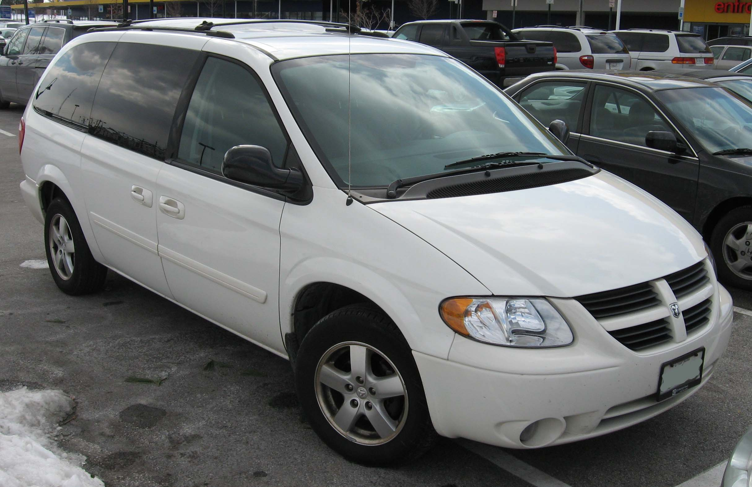 2005-2007 Dodge Grand Caravan photographed in USA.